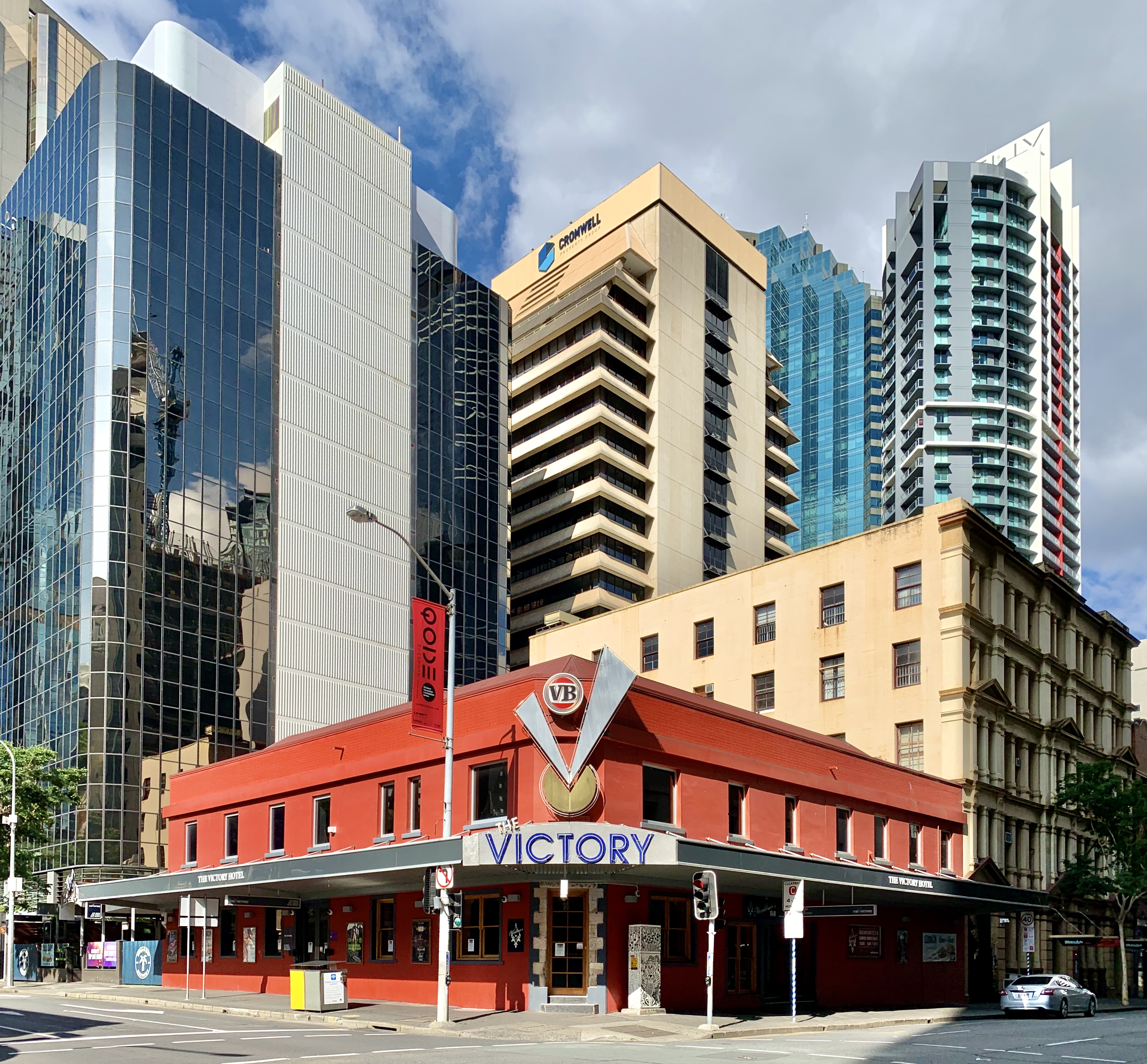 Victory Hotel, Edward Street during the COVID-19 pandemic in Brisbane, Australia